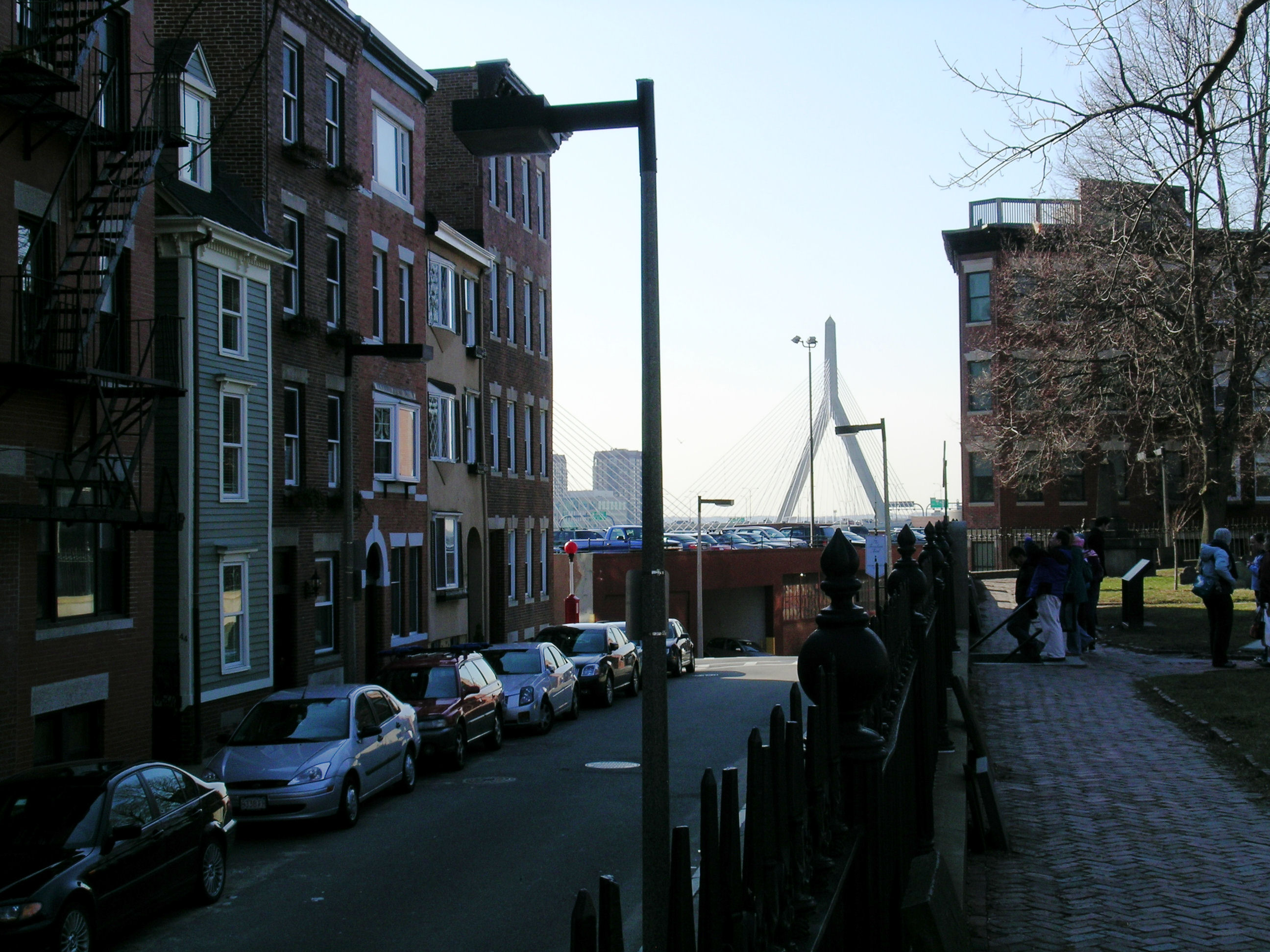 Copp's Hill in the North End of Boston. From left to right can be seen the Skinny House, the Leonard P. Zakim Bunker Hill Memorial Bridge, and the Copp's Hill Burying Ground. March 2008 photo by John Stephen Dwyer.